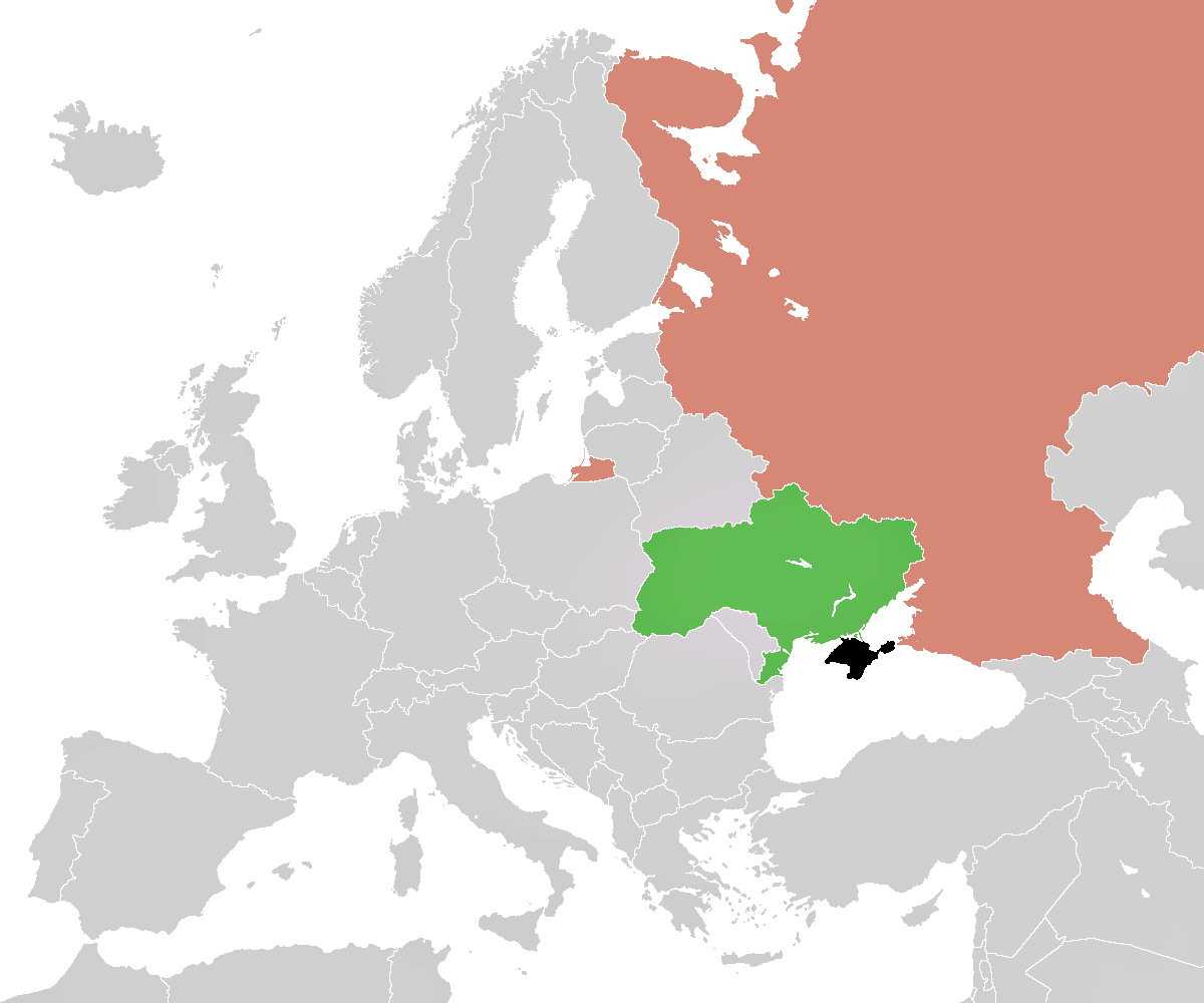 Map of the 2014 Crimean Crisis. The Crimean peninsula is shown in black as its territory is disputed between claimants (as of writing the Crimean government and the Ukrainian government, but almost certainly by the Russian government in a short matter of time). Outside of the disputed territory of the Crimean peninsula shown in black are Ukraine in green and Russia in a red-like hue.